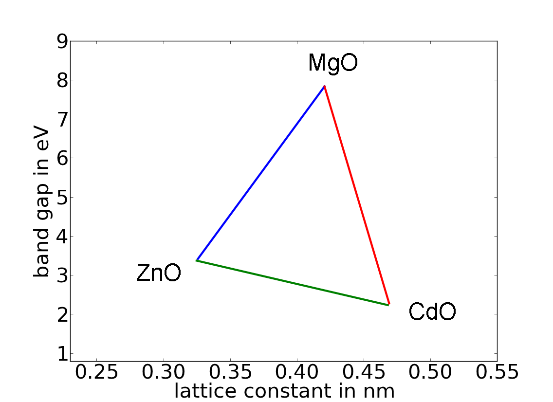 Bandgap diagramm of the ternary alloy of ZnO, CdO, MgO; de Bandlückenverlauf der ternären Zusammensetzung von ZnO, CdO und MgO aufgetragen gegen die Gitterkonstante a